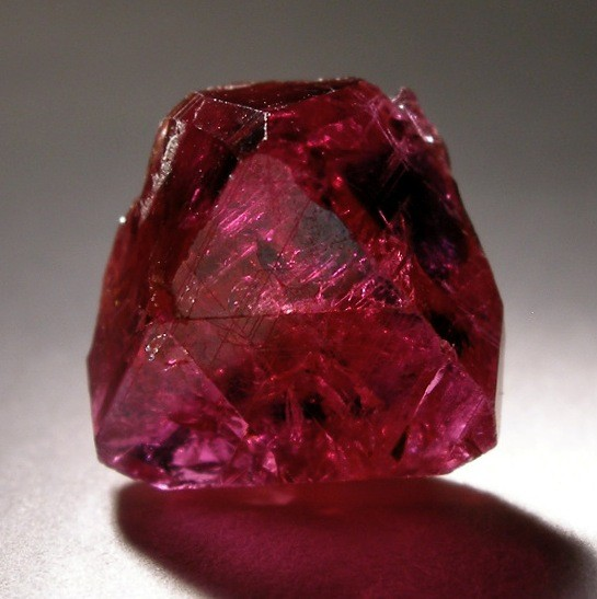 Corundum (Var.: Ruby) Locality: Winza, Mpapwa, Mpapwa (Mpwampwa) District, Dodoma region, Tanzania (Locality at ) Size: 1.1 x 0.9 x 0.7 cm. This is an extraordinarily glassy and gemmy, rose-cherry-red crystal of ruby. It is also doubly terminated and nearly complete all around, only with minor contact on the back side. 5.4 carats.